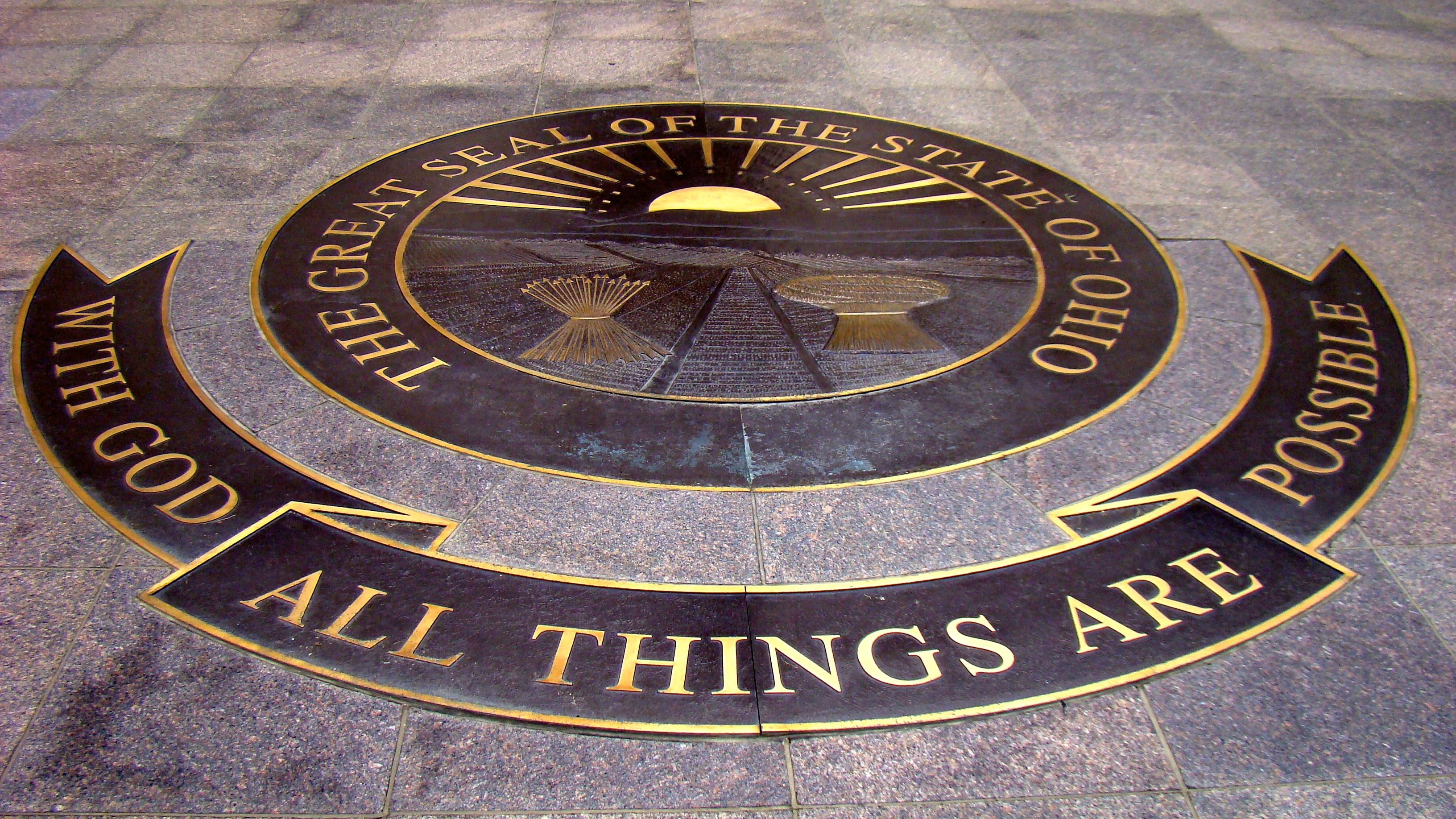 The "West Seal", a large, bronze reproduction of the Great Seal of Ohio embedded in a granite plaza at the foot of the steps leading to the Ohio Statehouse's west entrance. [1] The state motto, "With God, all things are possible", adorns the seal. Plans for this installation triggered a 1997 federal lawsuit, American Civil Liberties Union of Ohio and The Rev. Matthew Peterson v. Capitol Square Review & Advisory Board, that was decided in favor of the state. This display was installed in September 1998.